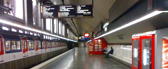 Charles de Gaulle-Etoile RER-metro station, Paris 2008.